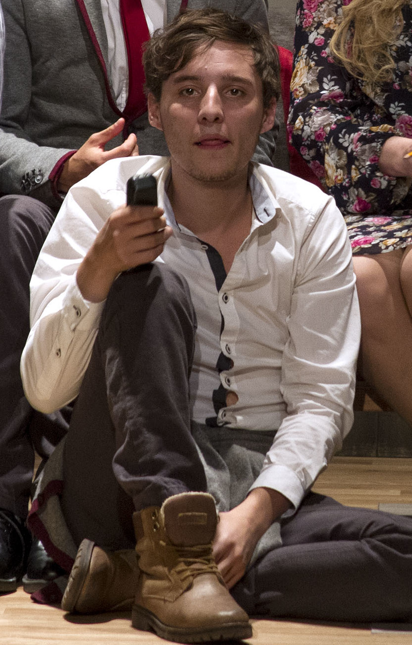 Martes 22 de Septiembre 2015. En el Teatro Benito Ju‡rez, se estreno la temporada de la puesta en escena El chico de la œltima fila del dramaturgo espa–ol Juan Mayorga, bajo la direcci—n de JosŽ Mar’a Mantilla.El reparto est‡ integrado por: Anna Ciocchetti, Carlos Corona, Luis Miguel Lombana, Paloma Woolrich, Jorge Caballero y Mauro S‡nchez Navarro. Foto:Tania Victoria/ Secretar’a de Cultura